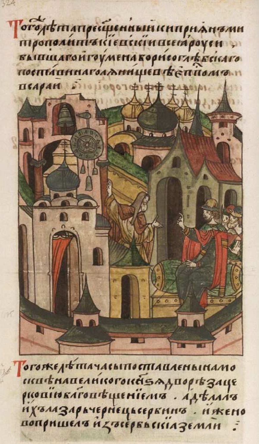 Monk Lazar the Serb showing Grand Prince Vasily I of Moscow and his two vassals the clock tower. Lazar invented and built the first known mechanical, public clock, which also struck hours, in Russia, at the request of Vasily I. The original miniature is from the 16th-century Ostermanovskij manuscript, part of the Litsevoy Collection of Chronicles (Ancient Chronicle. Sheet 587, drawing 1175). "В том же году в Москве были поставлены часы на дворе велико- го князя за церковью Благовещения, а делал их Лазарь, монах-серб, который пришел из Сербской земли"